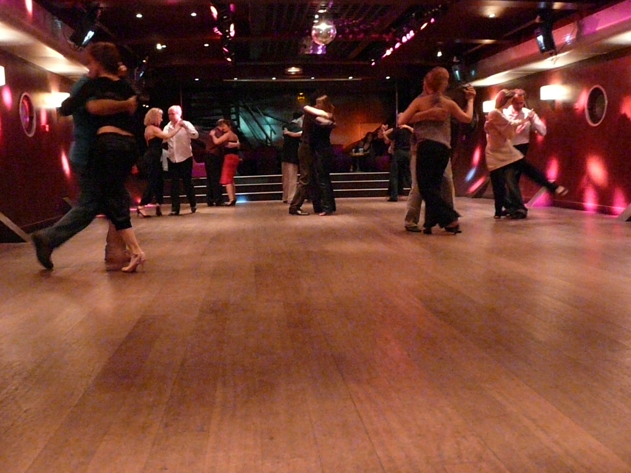 End of a milonga at the Boat NixNox in Paris